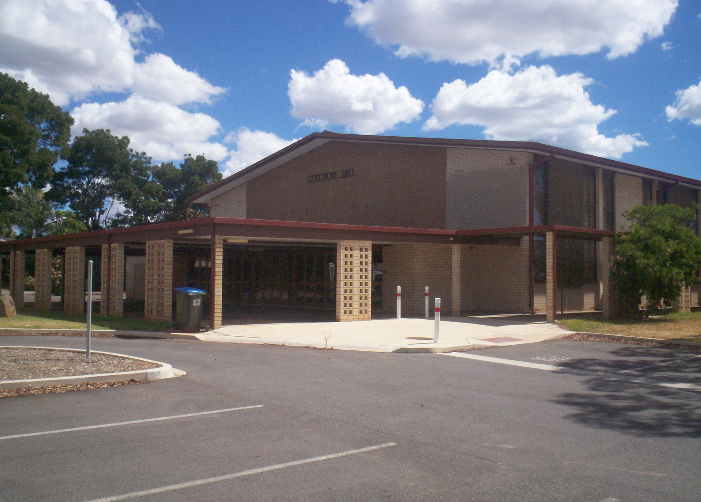 Cosgrove Hall was part of Marion High School until the school was closed in 1996. It remains as a community hall, and is available for hire.